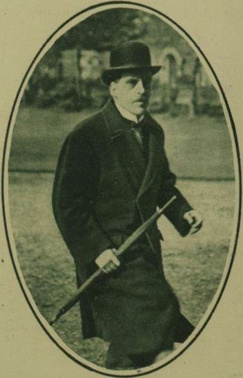 Frederick Hamilton-Temple-Blackwood, Speaker of the Senate of Northern Ireland